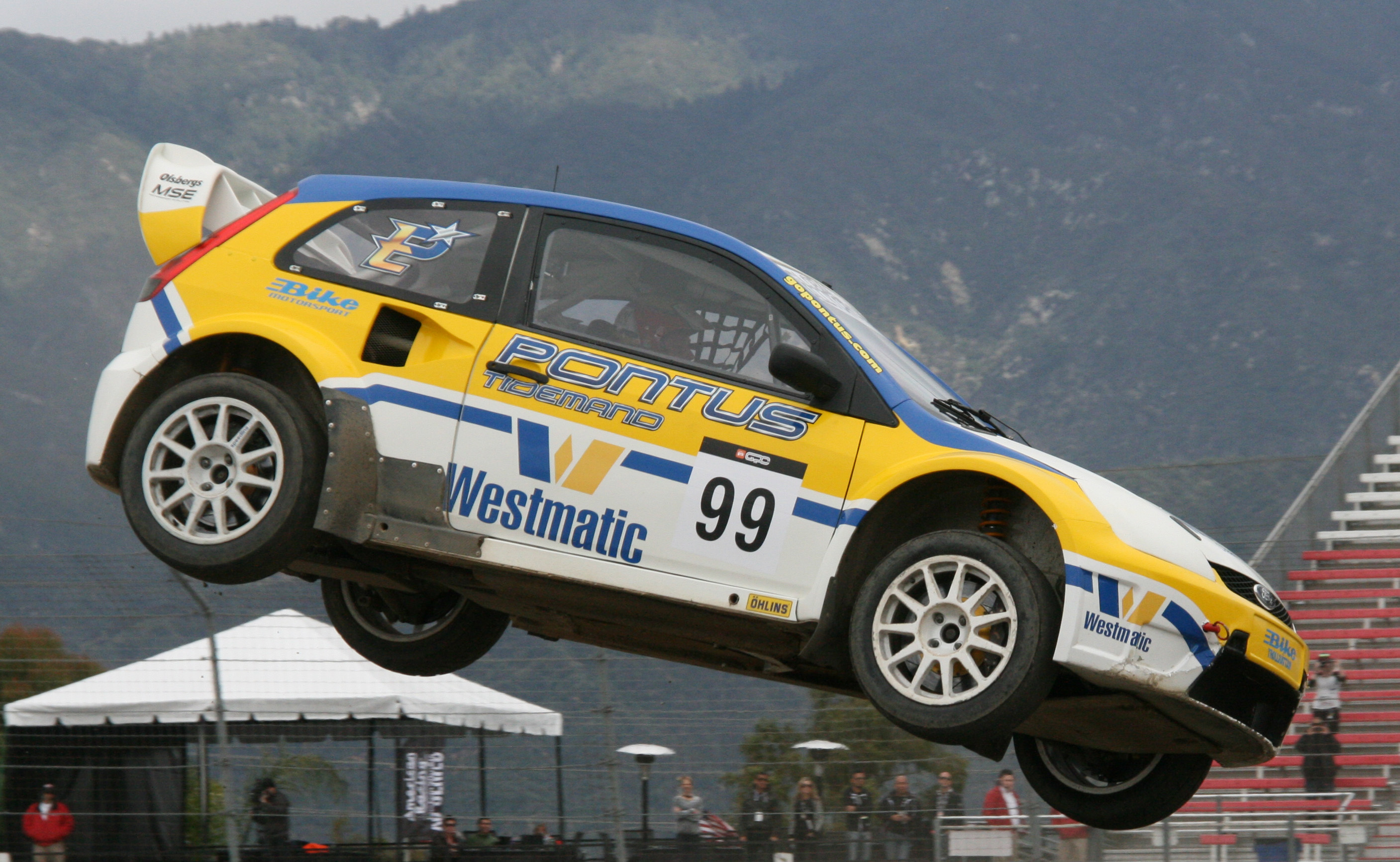 Swedish driver Pontus Tidemand in his Ford Fiesta Rallycross Supercar. Round 2 of the 2011 Global Rallycross Championship at Irwindale Speedway, California.